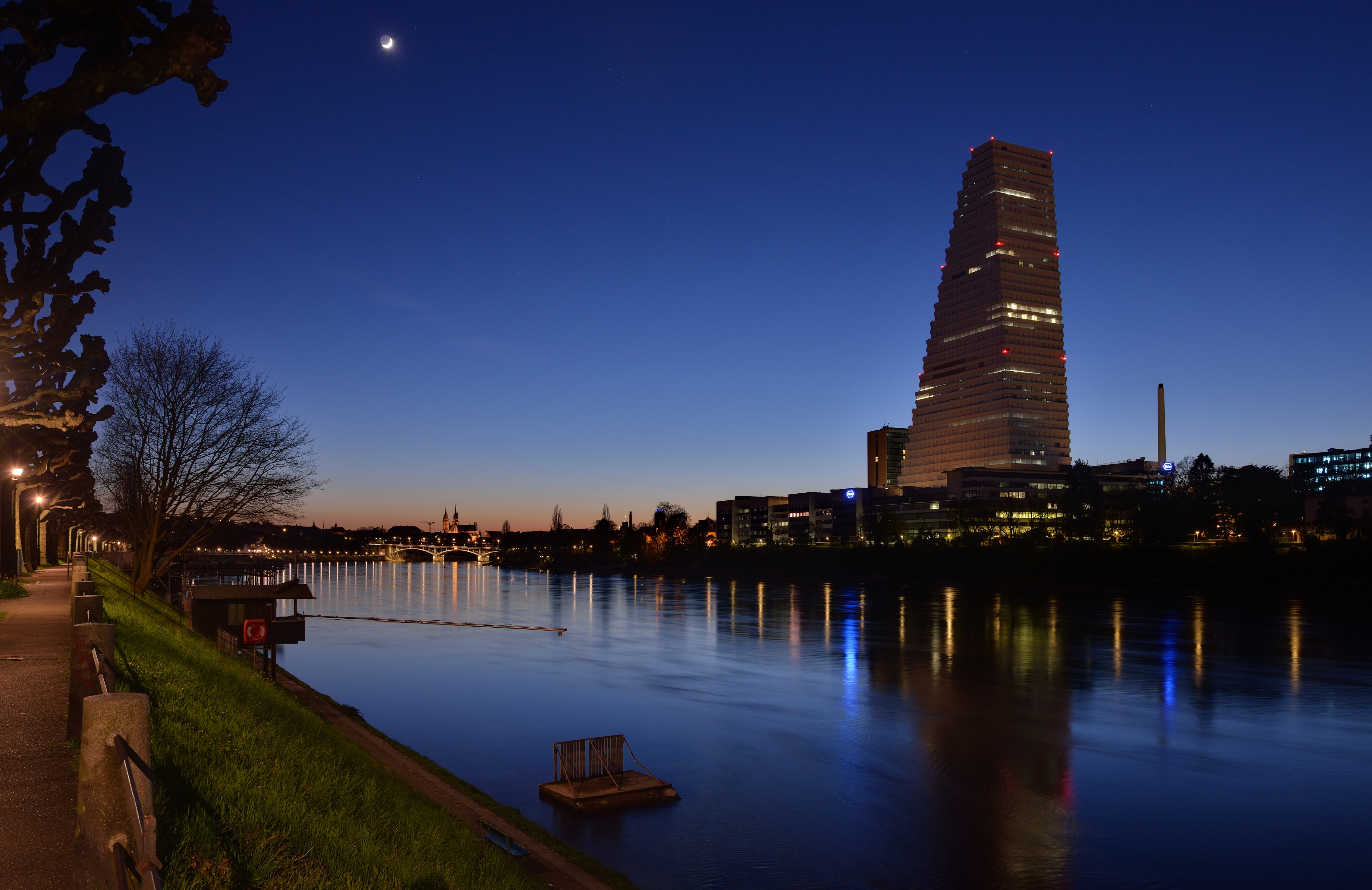 Basel: Roche Tower during dusk